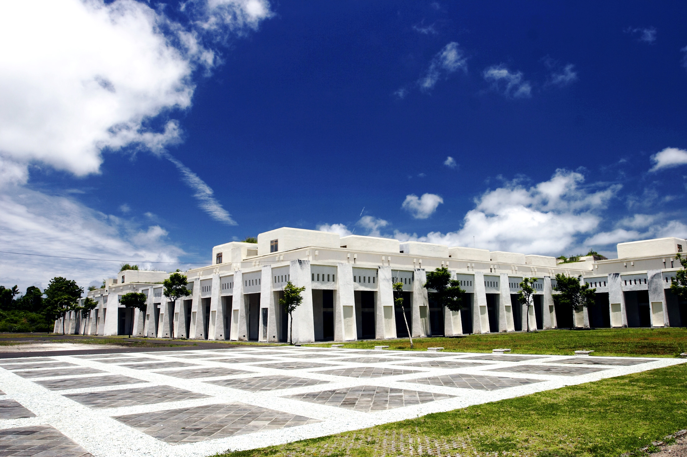 Abandoned shopping complex in Garuda Wisnu Kencana